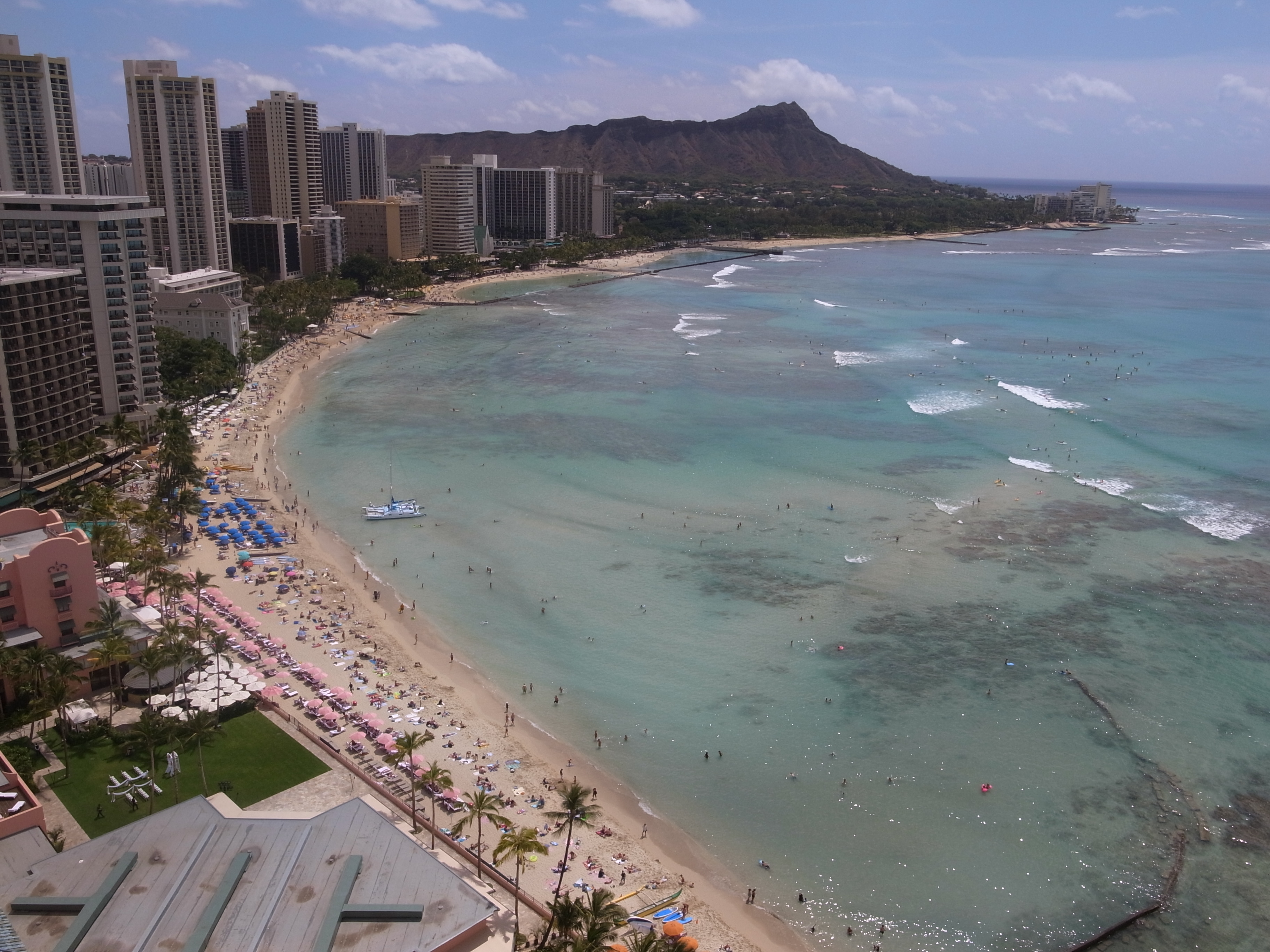 Diamond-Head View From Kai Ocean Suite